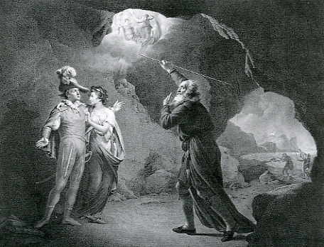 Joseph Wright, Ferdinand and Miranda in Prospero's Cell (1800). Copperplate engraving, engraved by Robert Thew, size size varies depending on edition, The Boydell Shakespeare Prints.